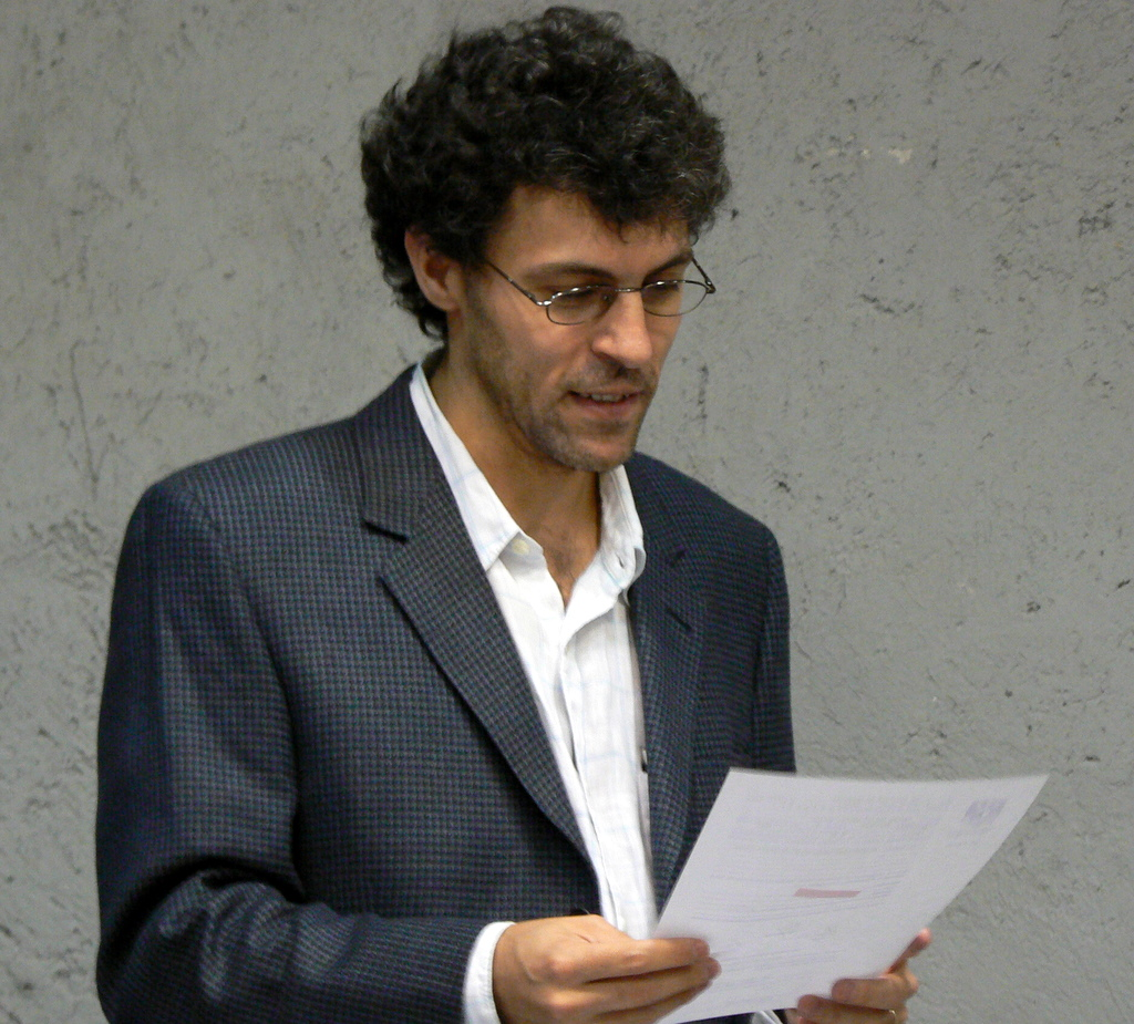 Miguel Alcubierre Moya (born 1964) is a Mexican theoretical physicist.